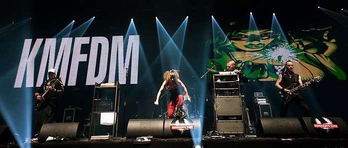 kmfdm live in 2011.